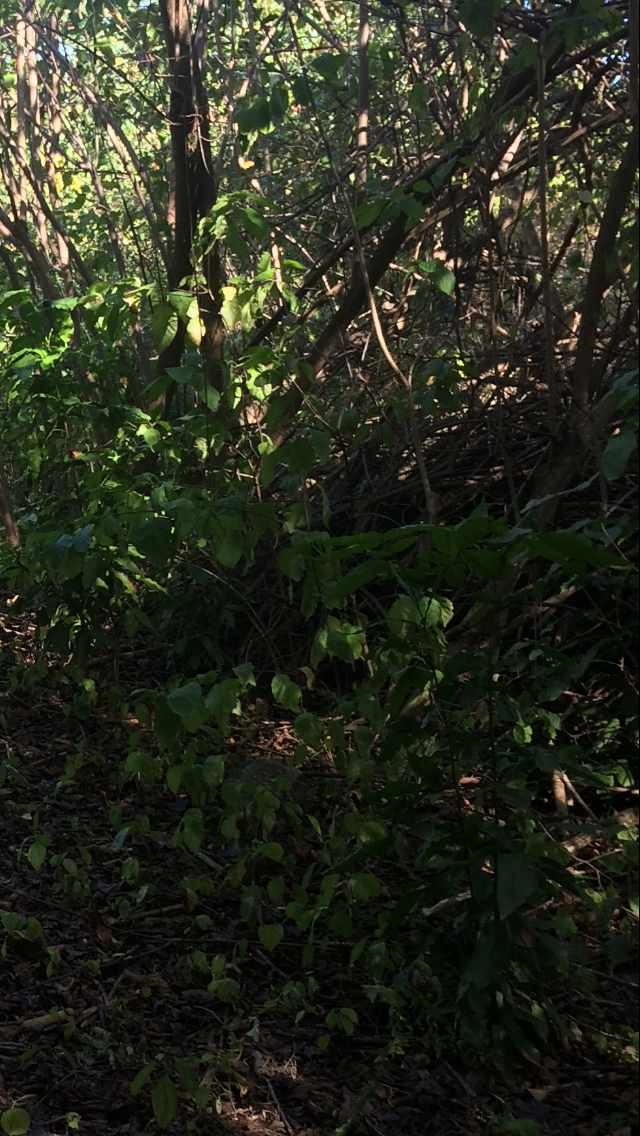 This particular area of Dry Forest is near an antique danish water well, this empty water well also roosts Molossus Molossus bats.